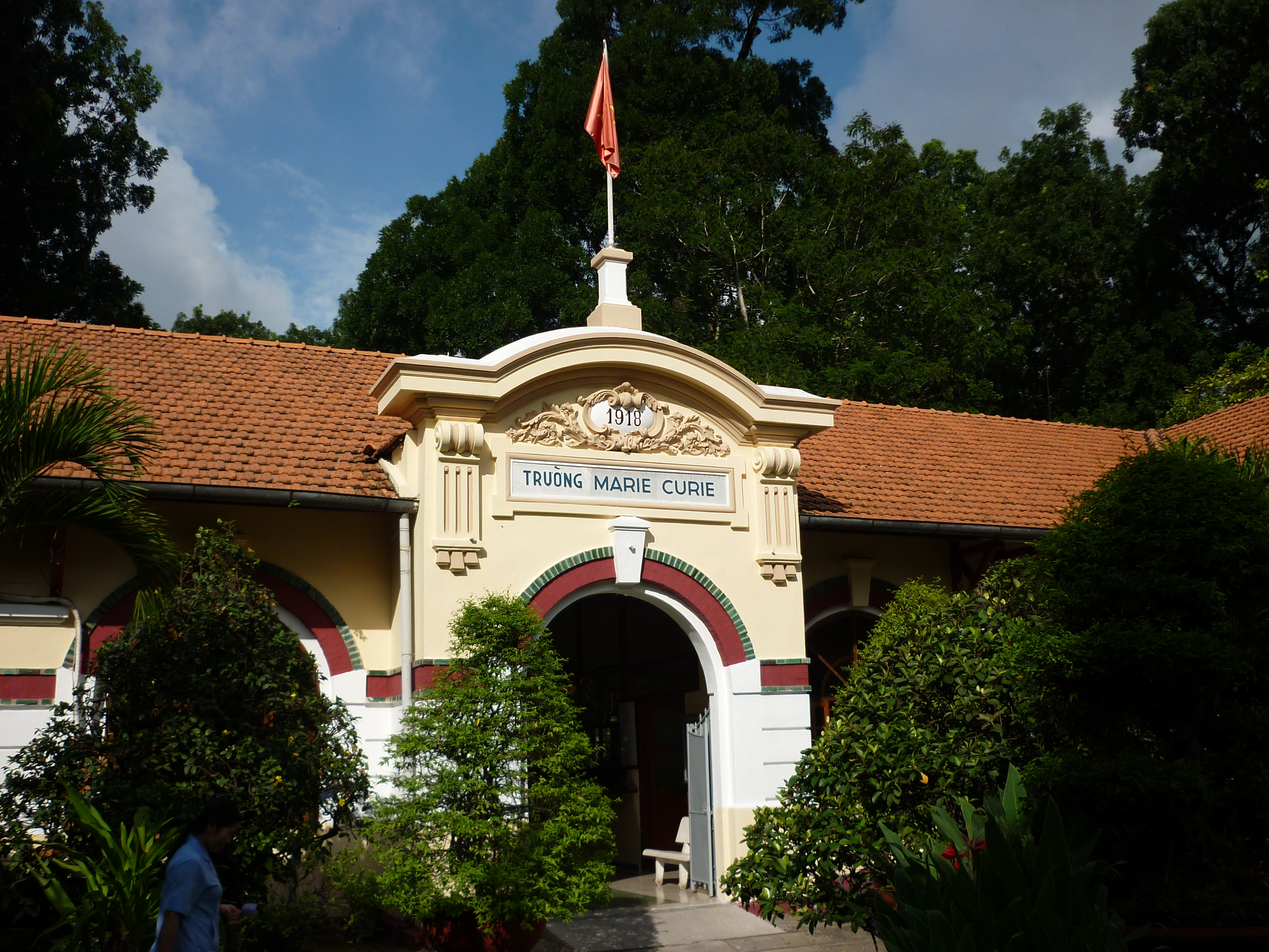 Lối vào ở cổng chính đường Nam Kỳ Khởi Nghĩa The entrance on Nam Kỳ Khởi Nghĩa gate